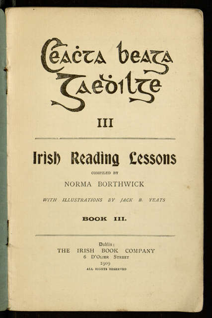 Norma Borthwick book, Ceachta beaga Gaeilge, illustrated by John (Jack) Butler Yeates